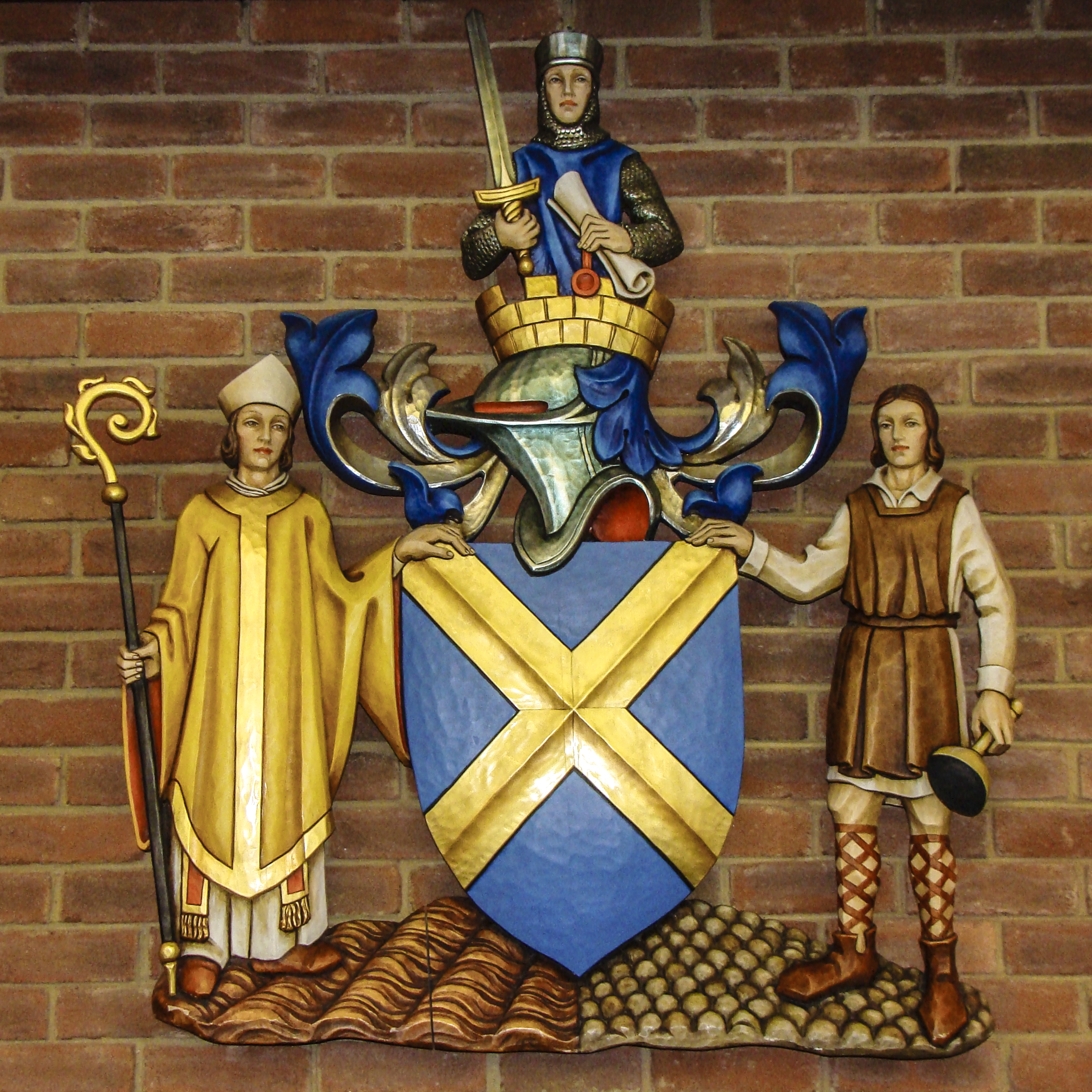 Coat of Arms of St Albans (relief).